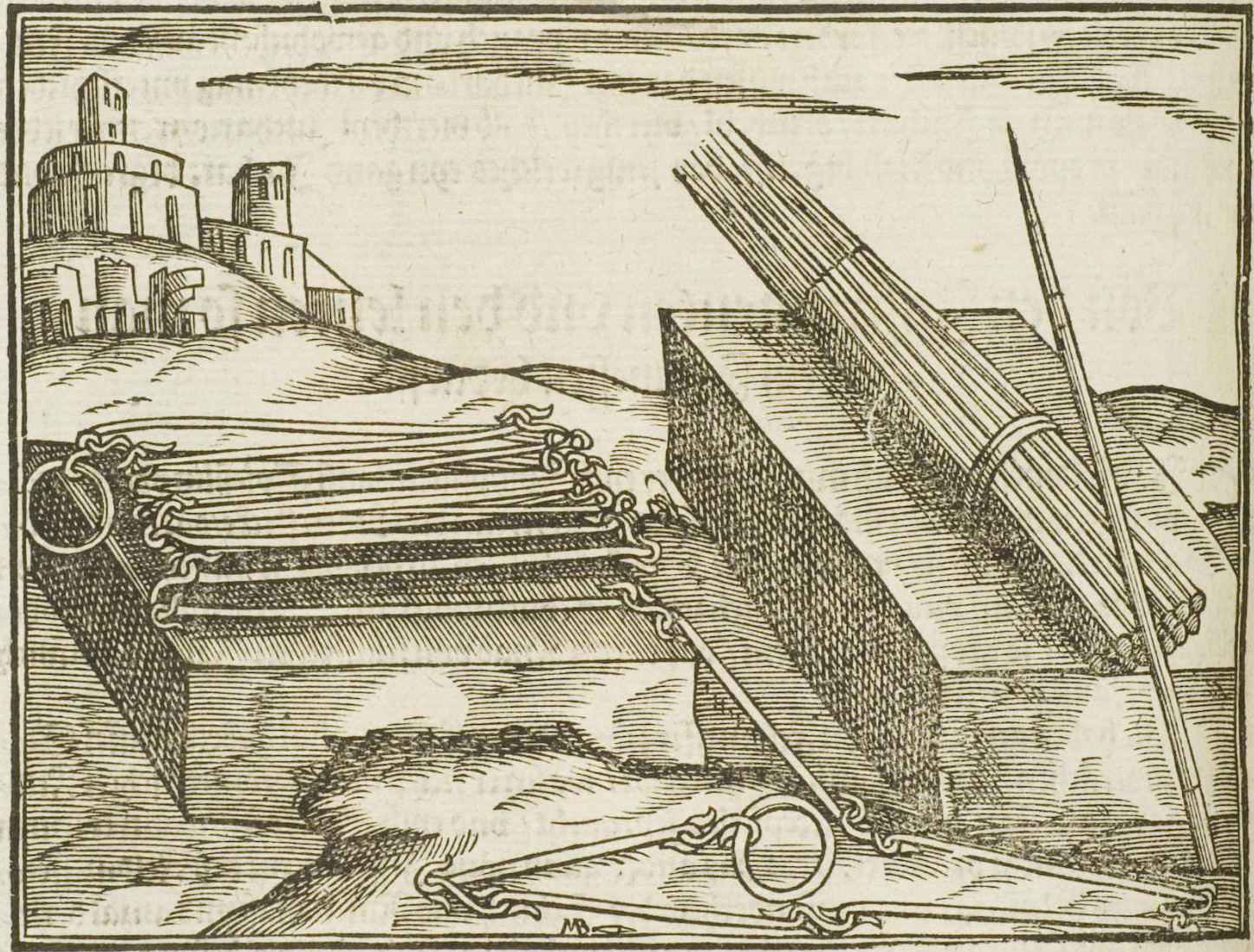 Representative drawing of the instruments of a surveyor of fields: measuring chain (left) and the posts used to fix parts of the measuring chain to the ground (right). From Book 5, Chapter 1, p. 472 of "Siben Bücher von dem Feldbau und vollkommener bestellung eynes ordentlichen Meyerhofs oder Landguts" (Seven books on agriculture and perfect management of a proper [farm]) by Carolo Stephano and Johanne Liebhalto, German version by Melchiore Sebizio Silesio, Strasbourg, printed by Bernhard Jobin, 1580